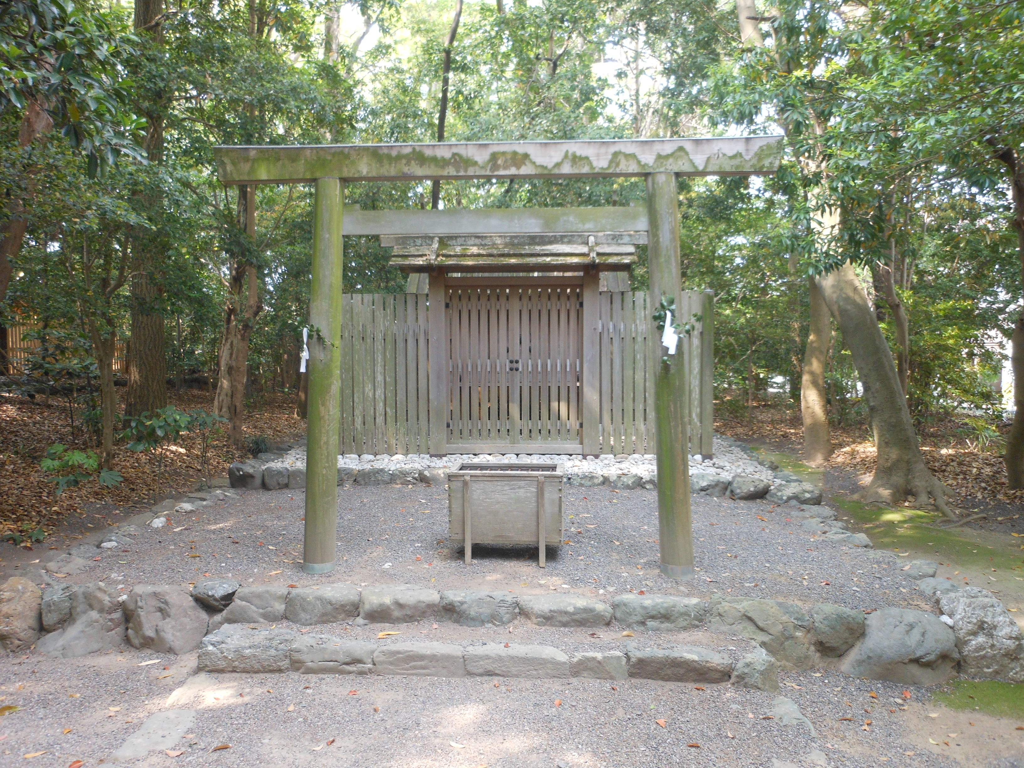 This is the Kawarabuchi shrine, which is located in Funae, Ise, Mie, Japan.